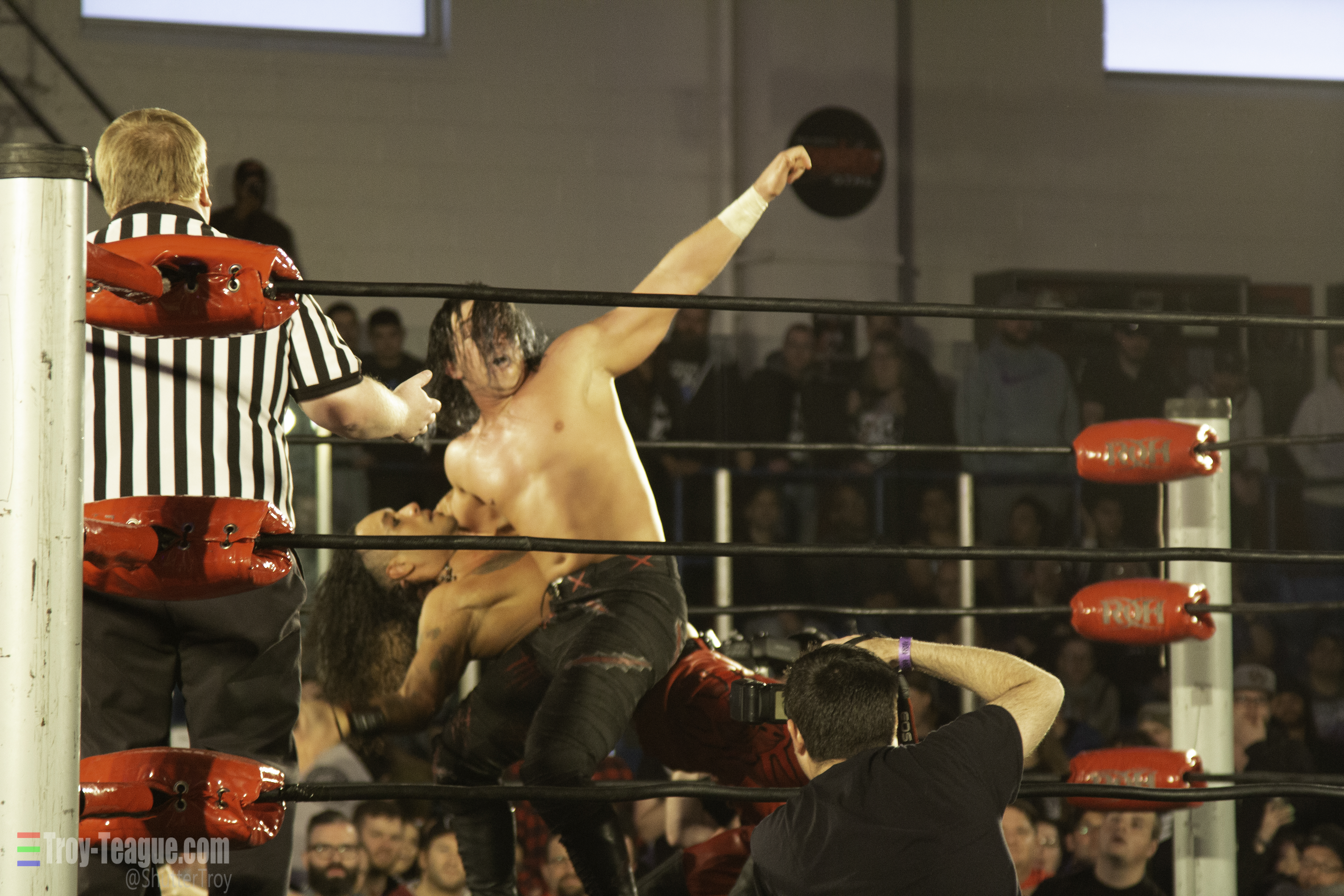 Jay White performing his finisher